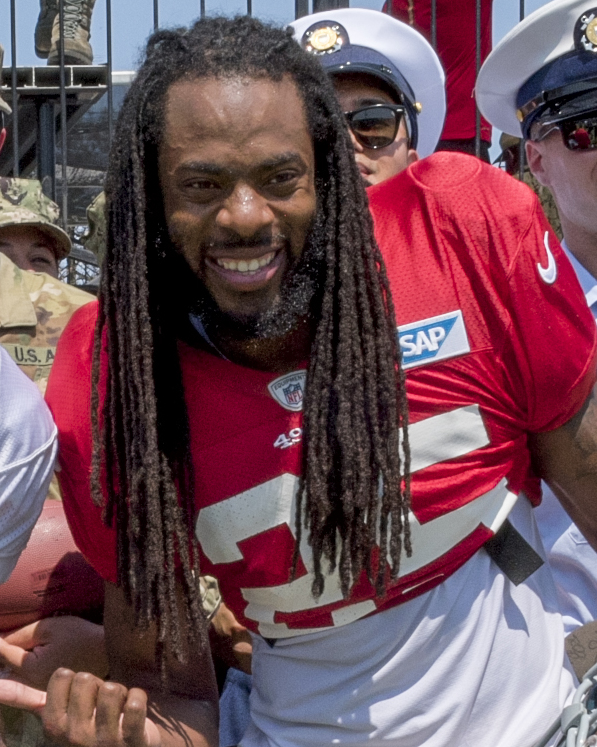 49ers players Marquise Goodwin, wide receiver, and Richard Sherman, cornerback, pose with a group of military members at the SAP Performance Facility, Santa Clara, Calif., Aug. 12, 2018. The 49ers organization invited military members from the local area to observe their training camp during a military appreciation day.